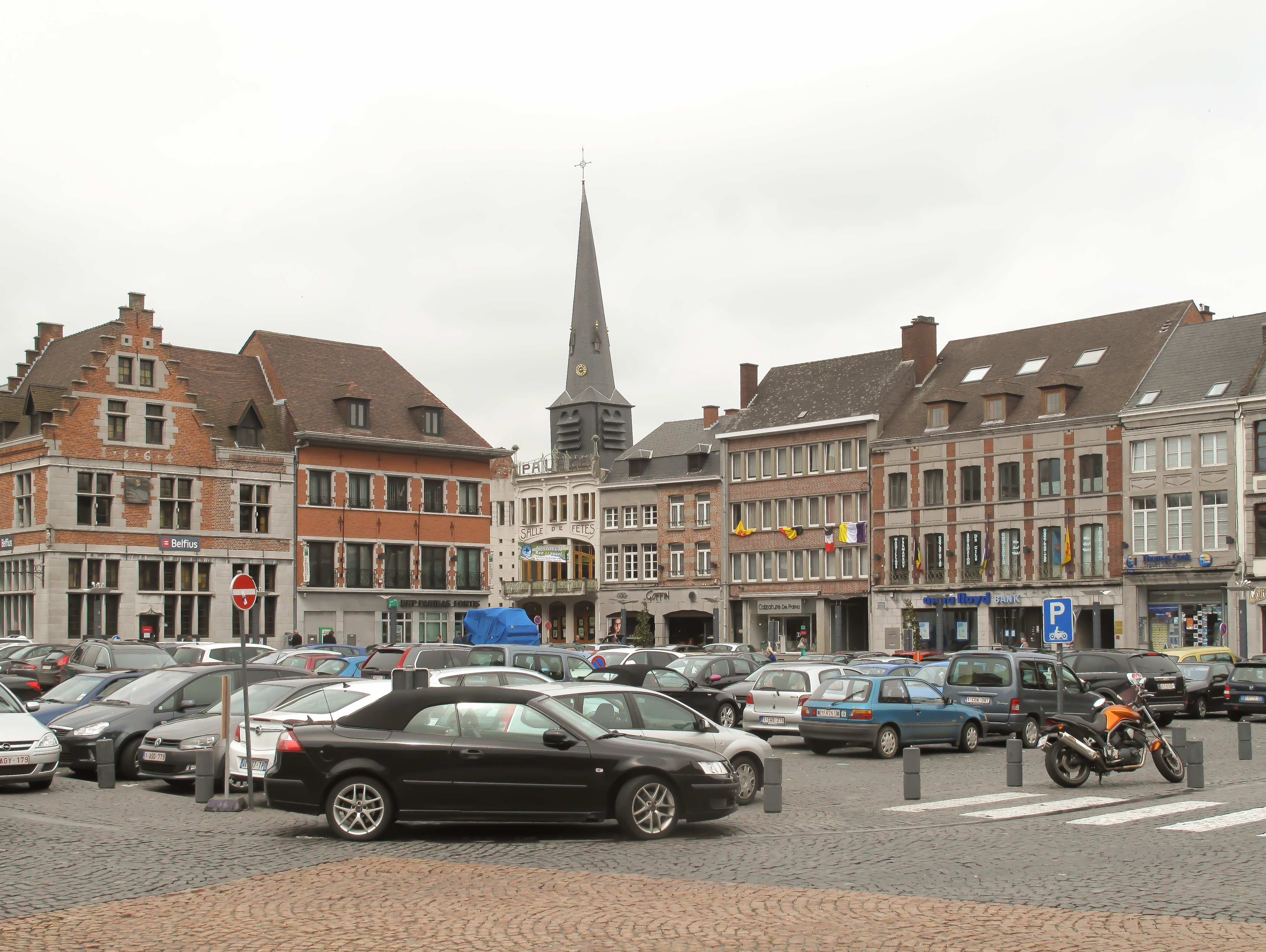 Ath, square: Grand Place